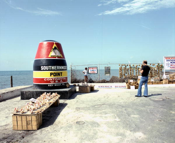 Local call number: DM2980 Title: The Southernmost Point, 90 miles to Cuba: Key West, Florida Date: ca. 1985 Physical descrip: 1 photonegative - col. - 60 mm. Series Title: Dale M. McDonald Collection Repository: State Library and Archives of Florida, 500 S. Bronough St., Tallahassee, FL 32399-0250 USA. Contact: 850.245.6700. Persistent URL